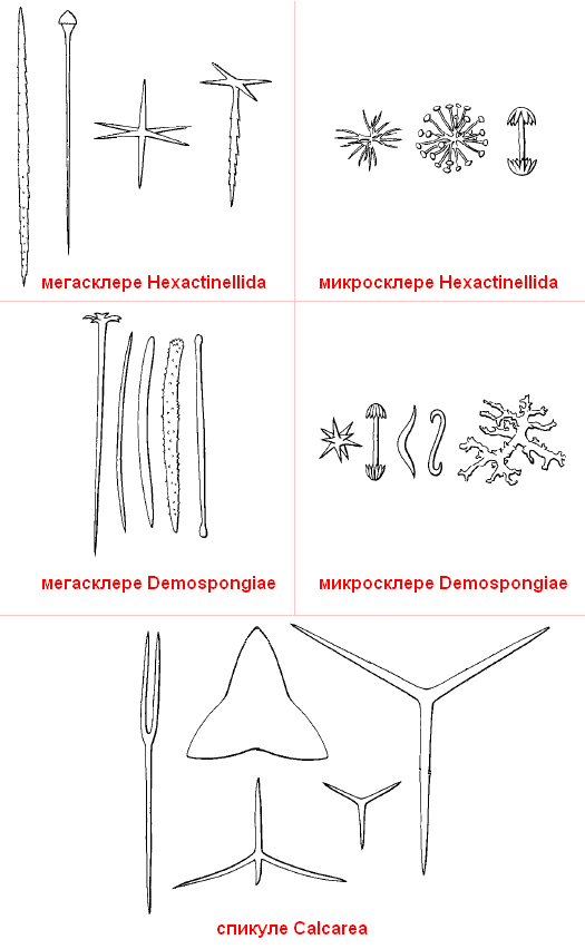 Different types of spongian spicules (names in Serbian)